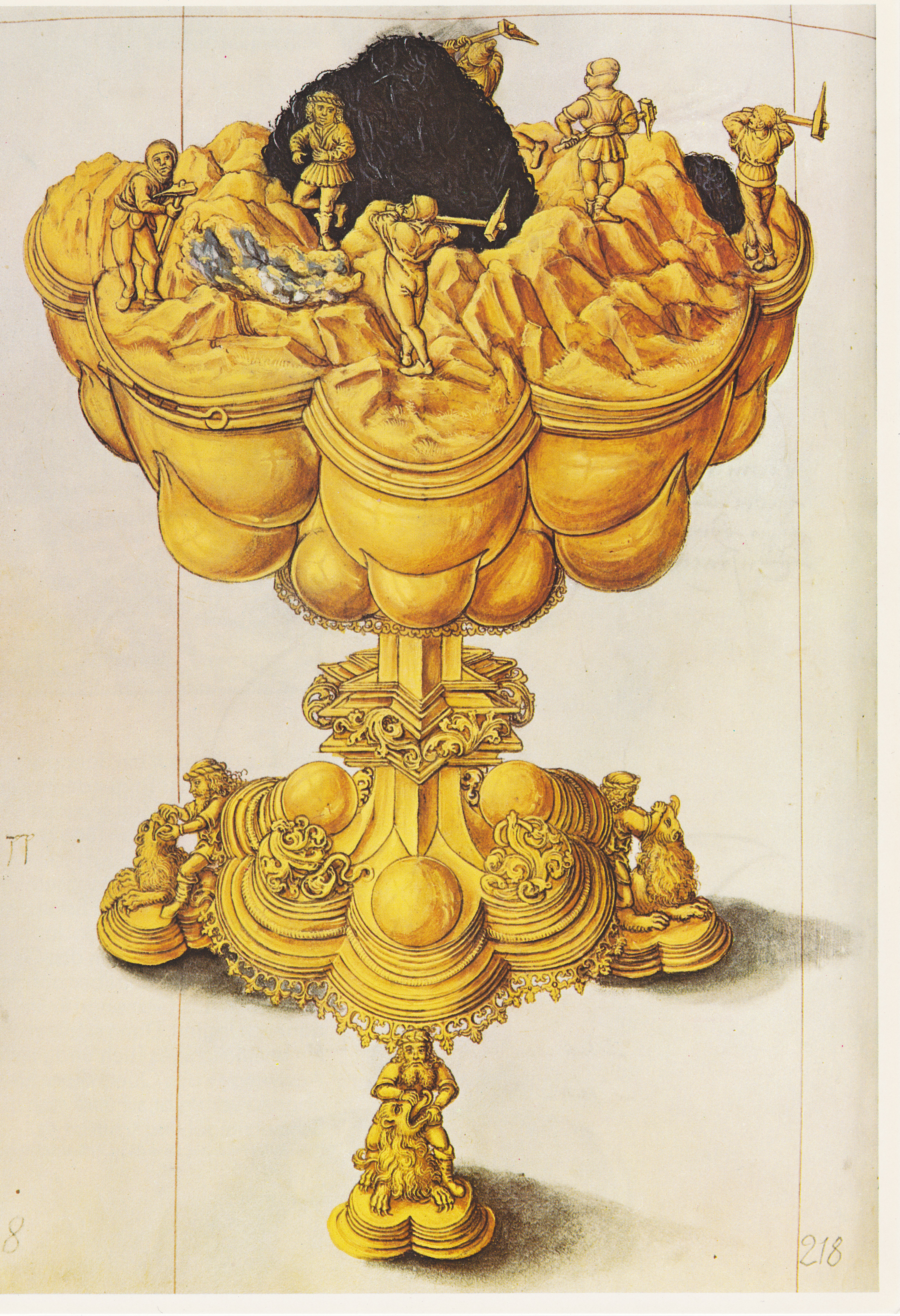 Cup with representation of silver miners, Saxonia, about 1500. Miniature from "Hallesches Heiltumsbuch", 1526, Hofbibliothek Aschaffenburg (Germany)